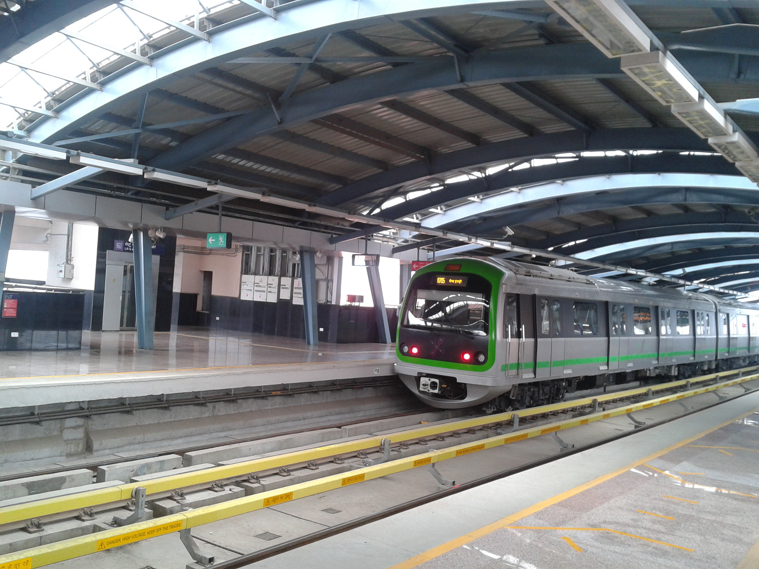 Yeshwantapur Metro-Platform View1